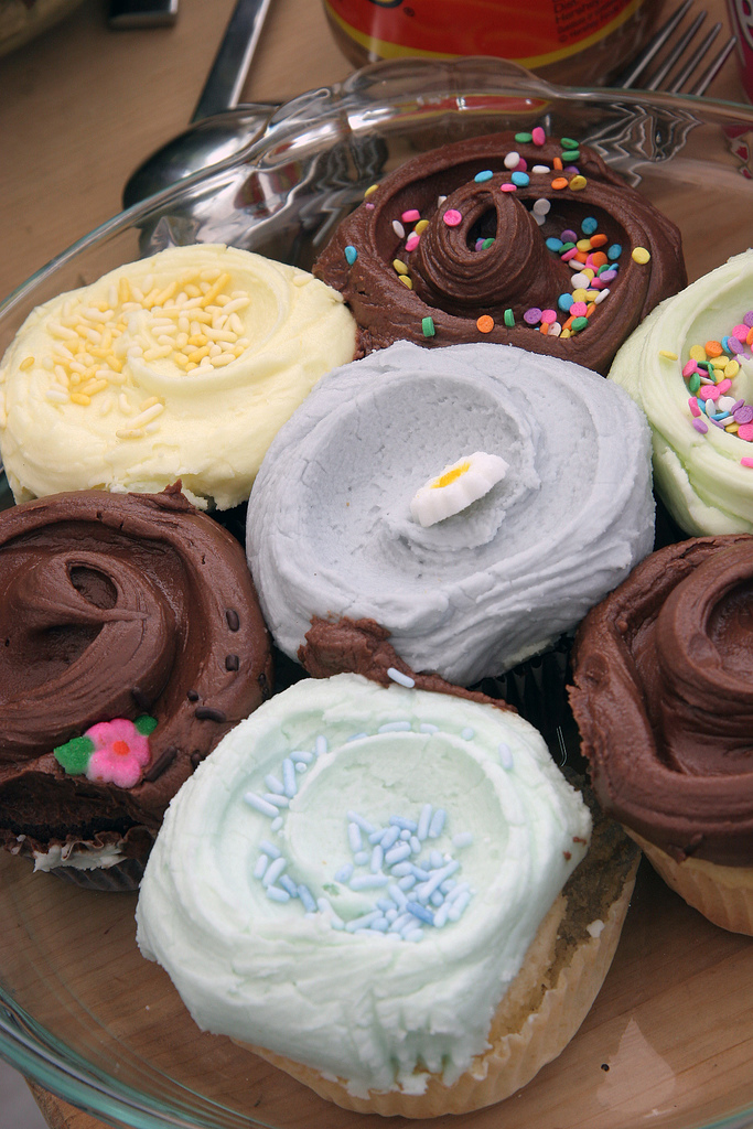 Magnolia's cupcakes. Only the best.